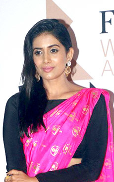 Sonali Kulkarni at Femina Women Award 2017